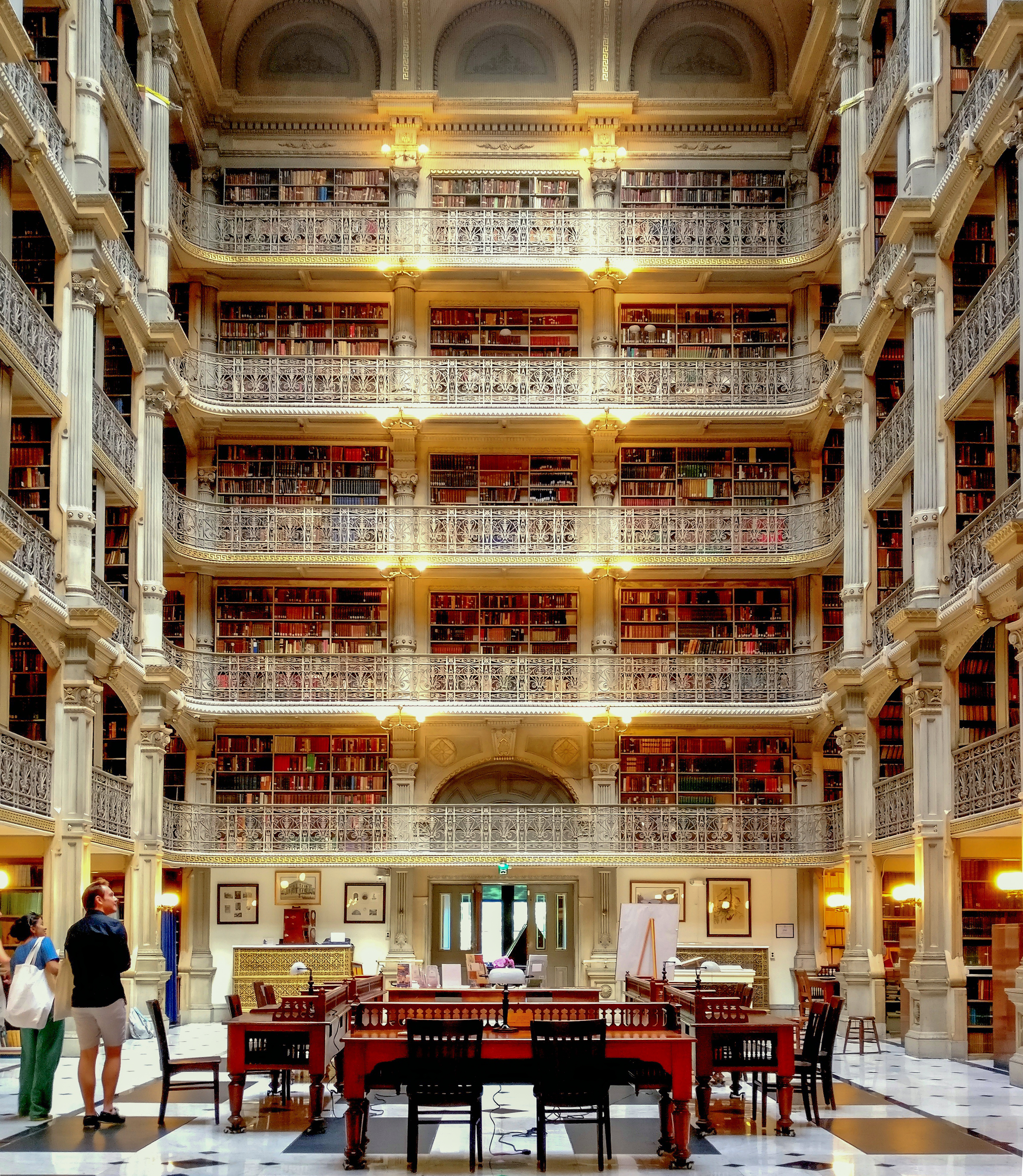 This is the George Peabody Library of Johns Hopkins University in the peabody institute.